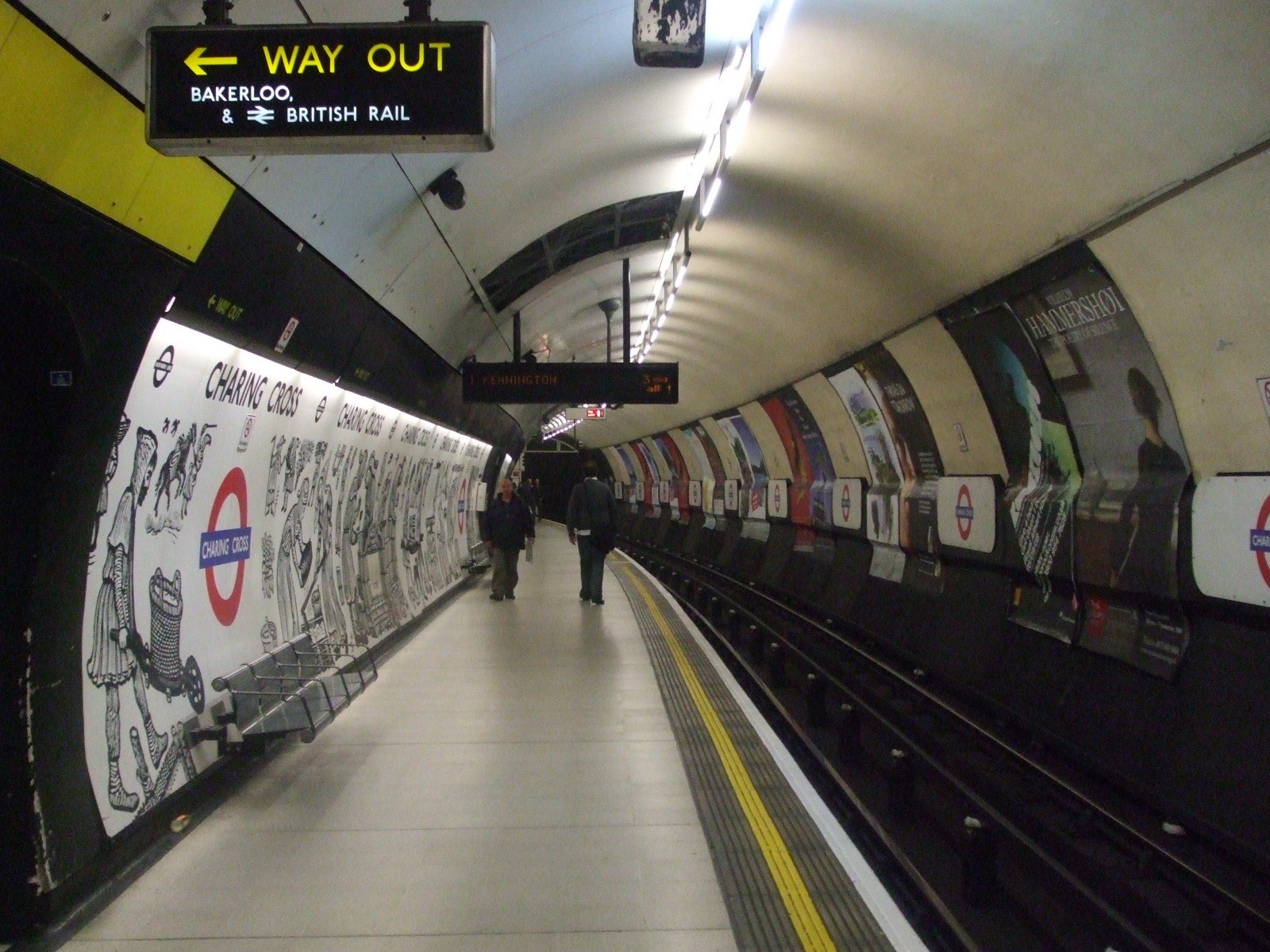 Charing Cross tube station Northern line southbound platform looking north